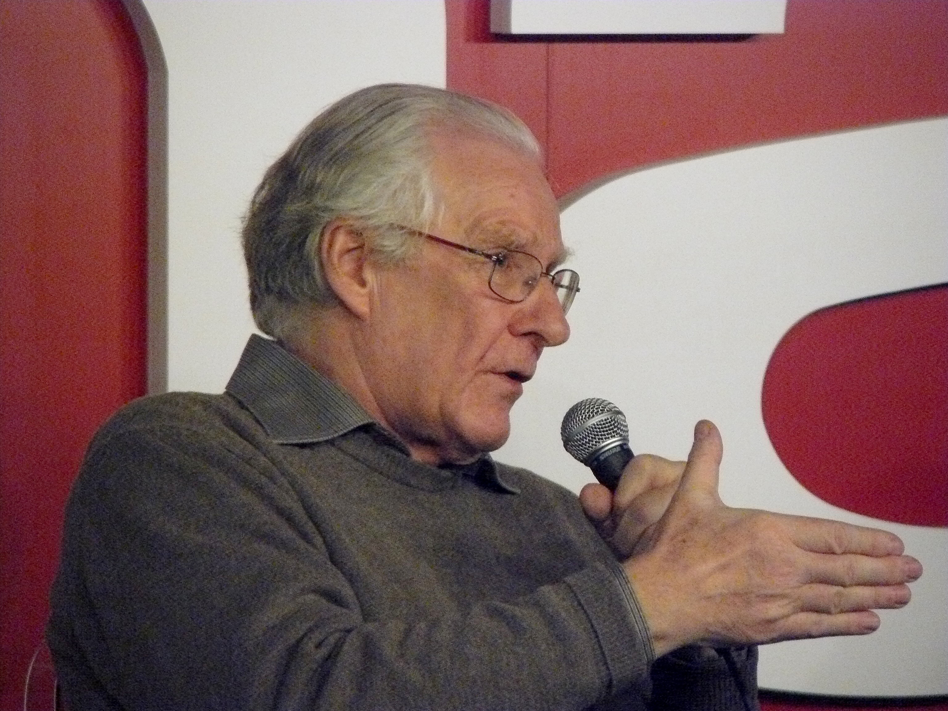 Alain Badiou (born 17 January 1937 in Rabat, Morocco) is a prominent French philosopher, formerly chair of philosophy at the École Normale Supérieure (ENS) - pictured in FNAC Montparmasse (Paris) in occasion of a book show, february, 5th in 2010